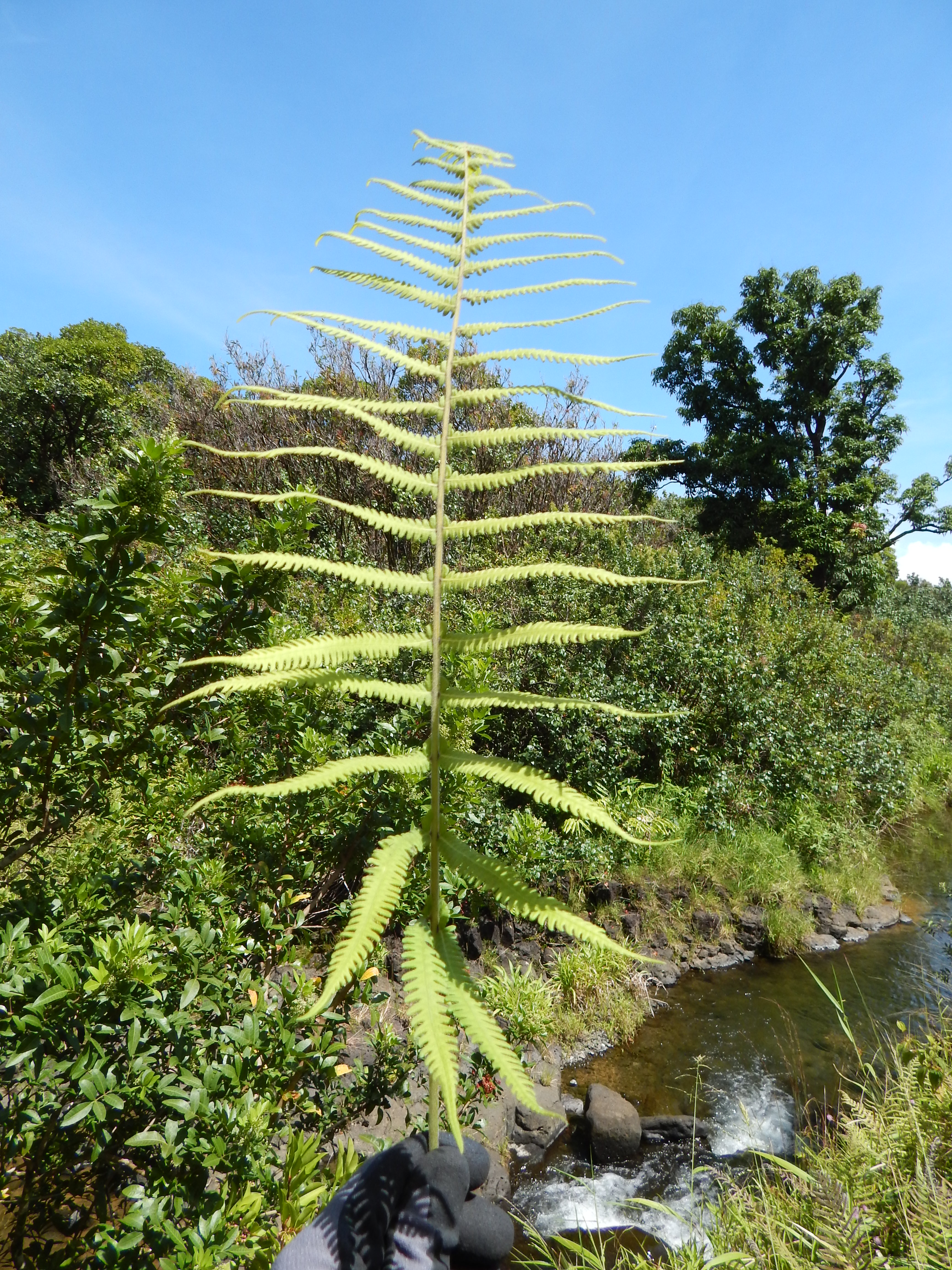 Cyclosorus parasiticus (Christella) Frond at Wailua, Maui, Hawaii. September 09, 2014 #140909-1725 Image Use Policy Also known as Christella parasitica.